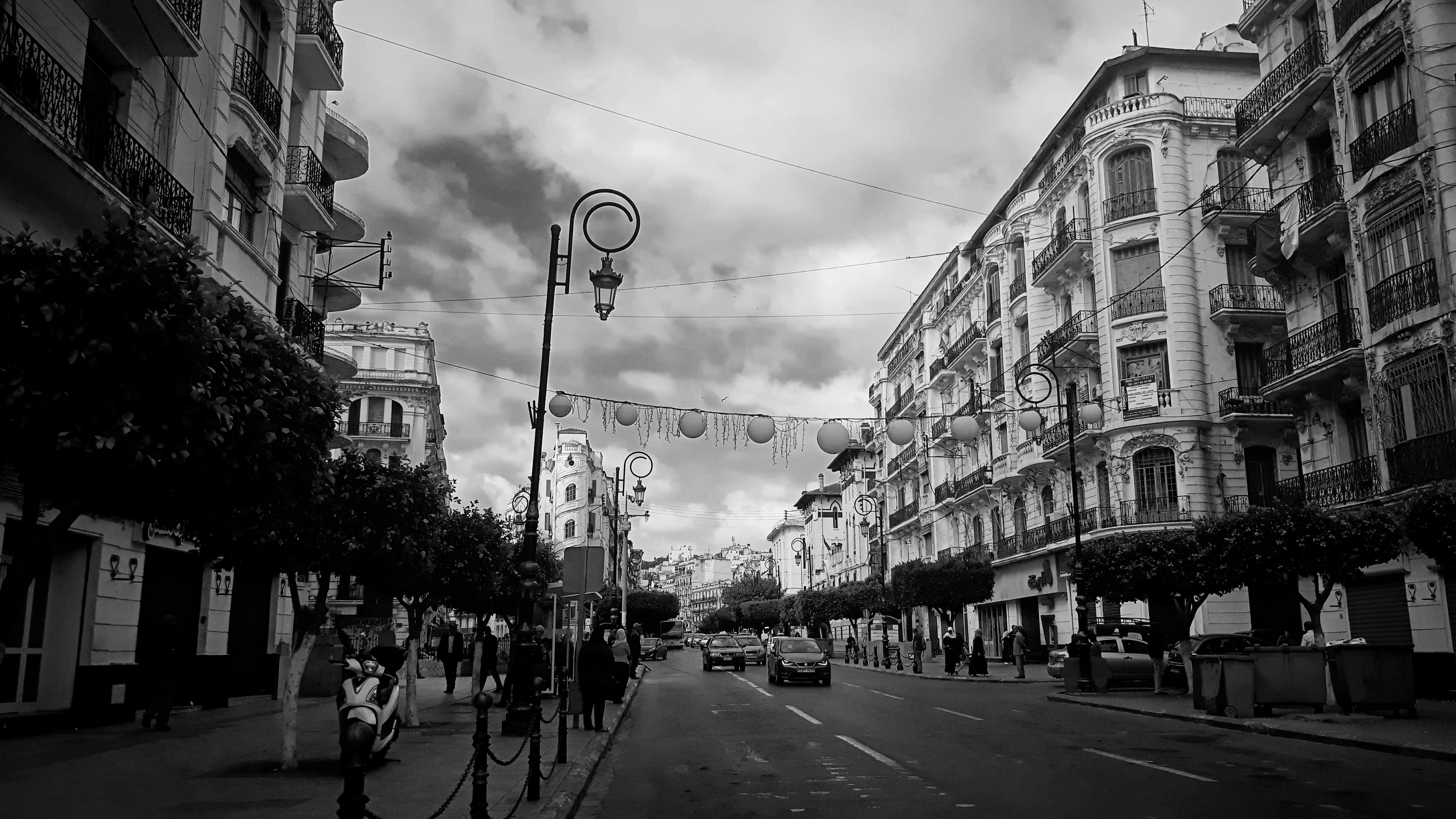 A caption of one of Algiers biggest boulevards, actually called Didouche Mourad, I prefer using its original name : Michelet, the name it got when first built, road and buildings.